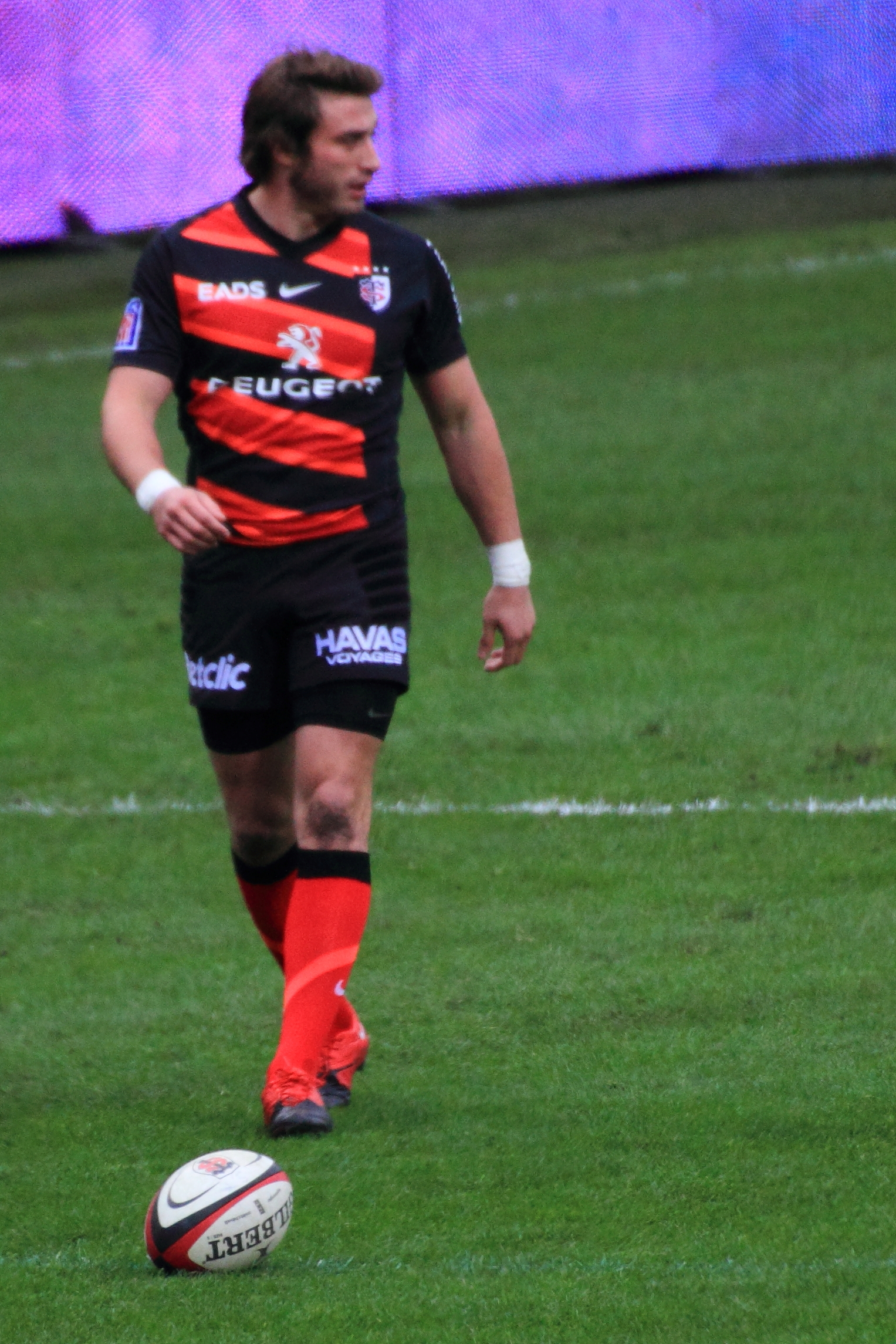 Top 14 — 3 December 2011, Stadium. Match between: Stade toulousain — RC Toulon